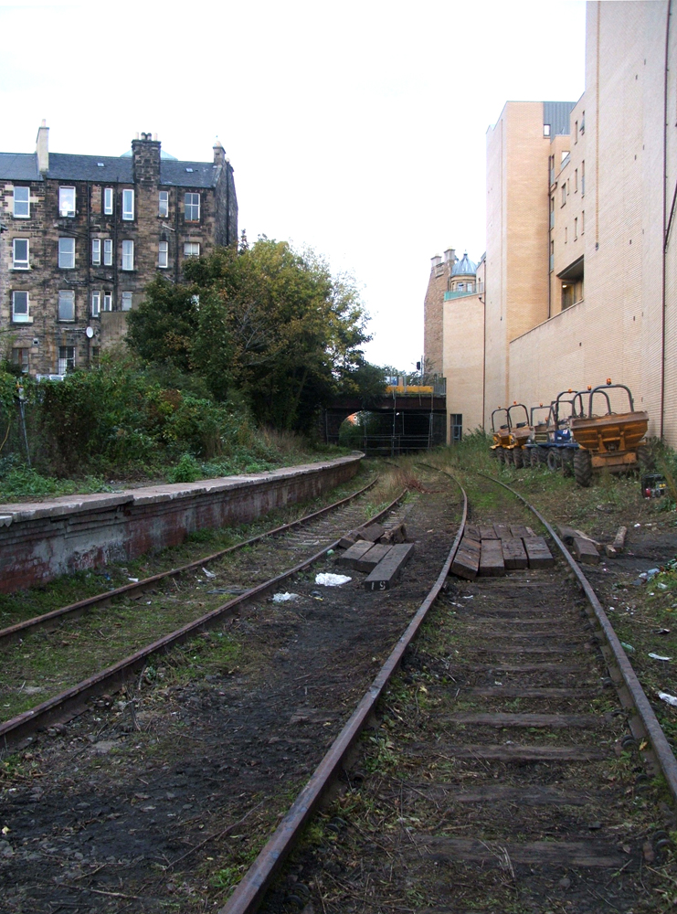 Platform of former Abbeyhill Station on the Edinburgh, Leith and Newhaven Railway in Edinburgh.